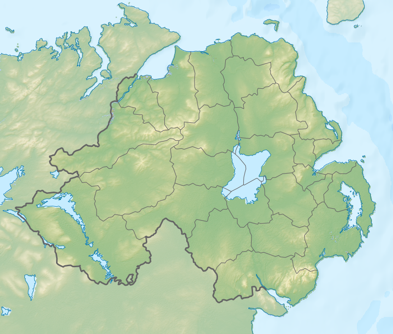 Relief map of Northern Ireland. Projection: Mercator Geographic limits of the map: W: 8.3° W E: 5.3° W S: 53.9° N N: 55.4° N